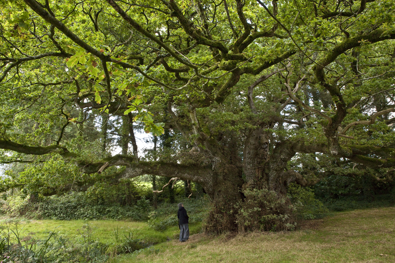 Remarquable oak of Tronjoly in Bulat-Pestivien (France) aged of 1500-1700 years.